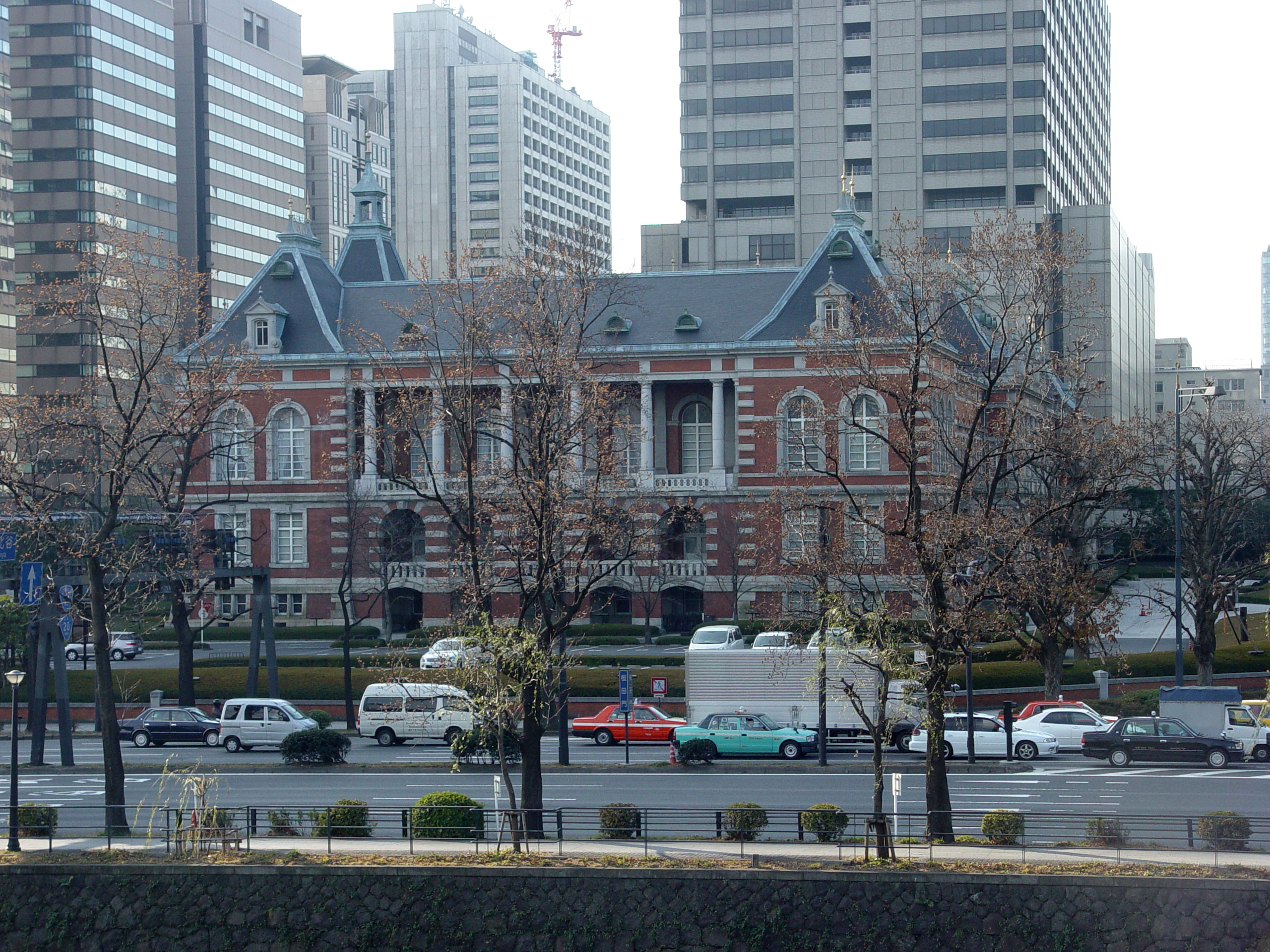 One of the public office buildings of the The Ministry of Justice, Japan 法務省庁舎